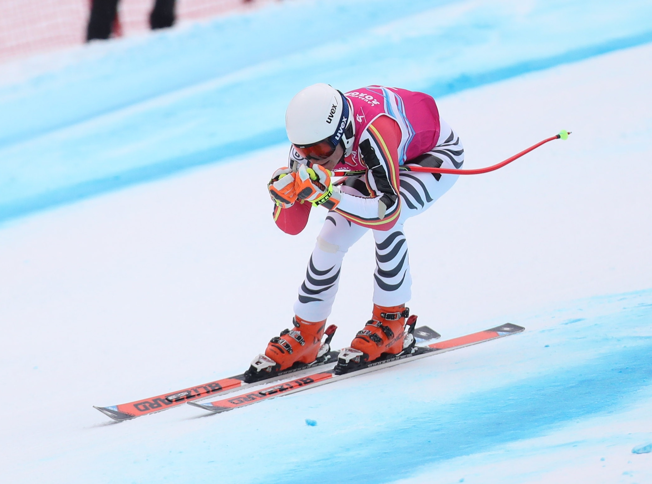 Men's Super G at the 2020 Winter Youth Olympics in Lausanne